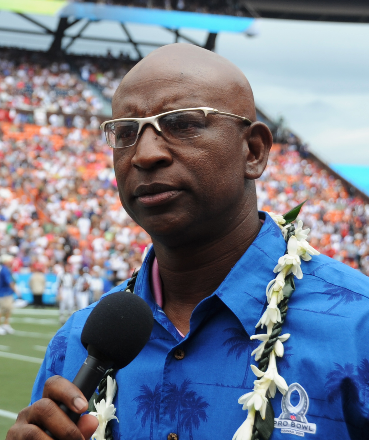 Former running back Eric DIckerson